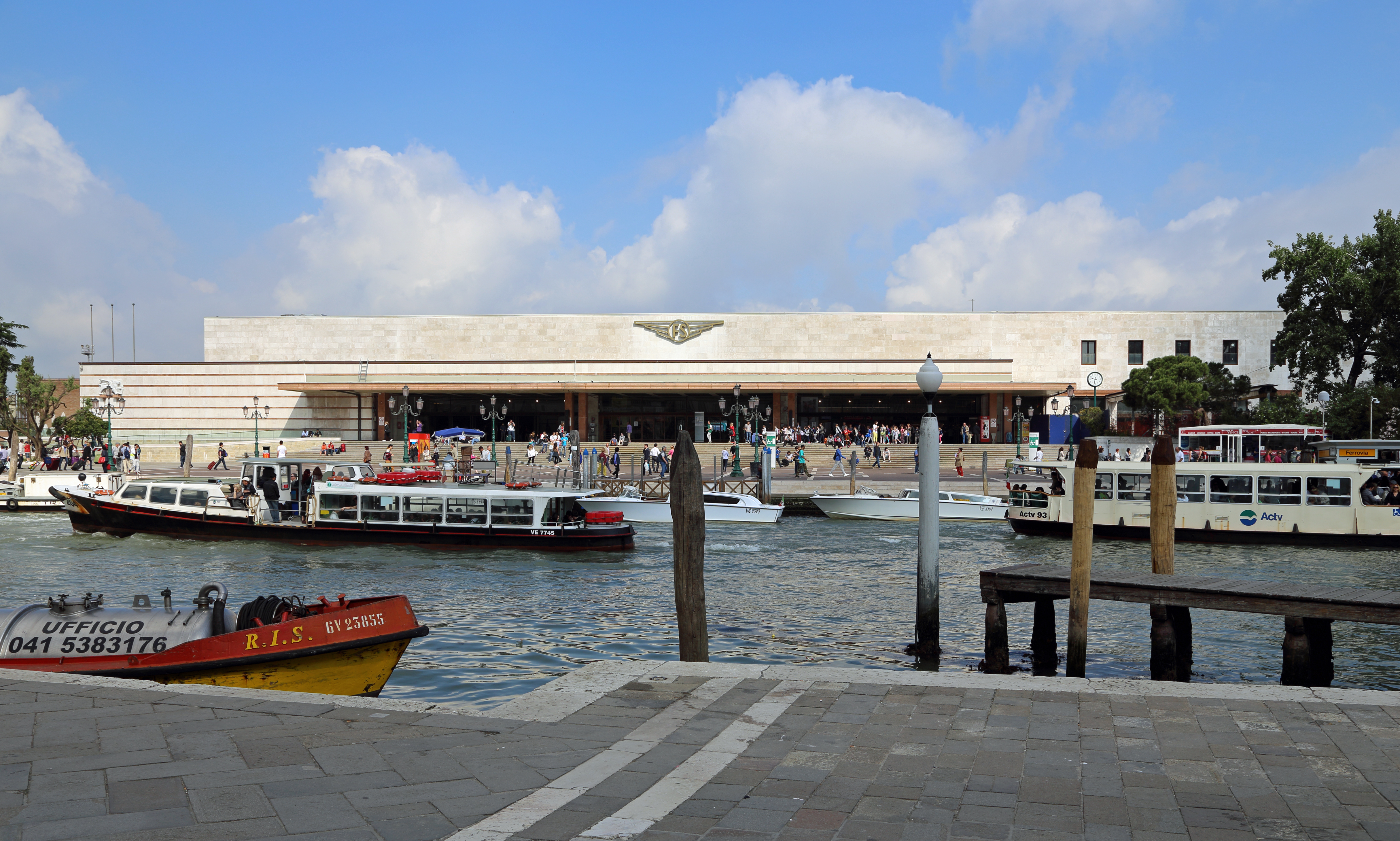 Venice (Italy): Santa Lucia train station